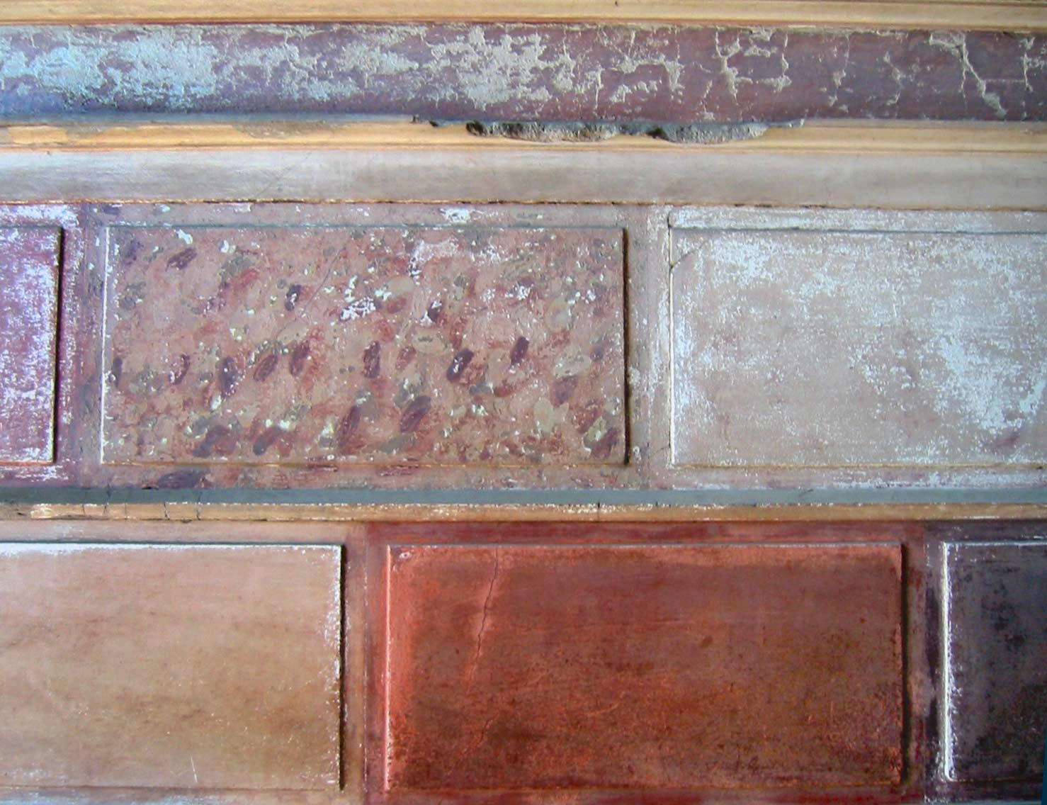 Wall painted in the first style, inside the "Casa sannitica" in the ancient city of Herculaneum in Italy